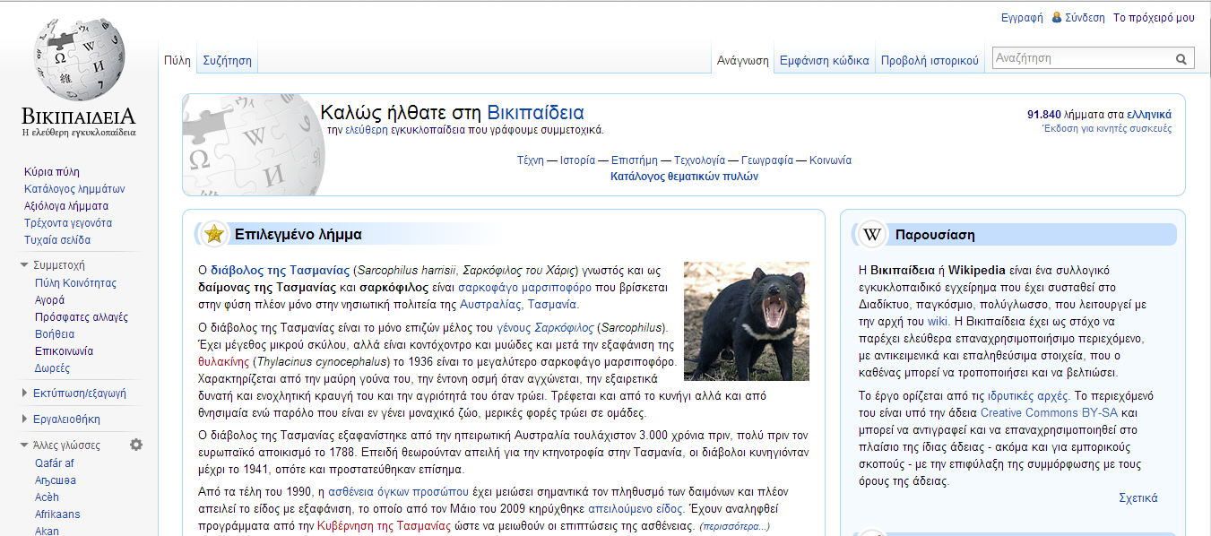 Elwiki main page